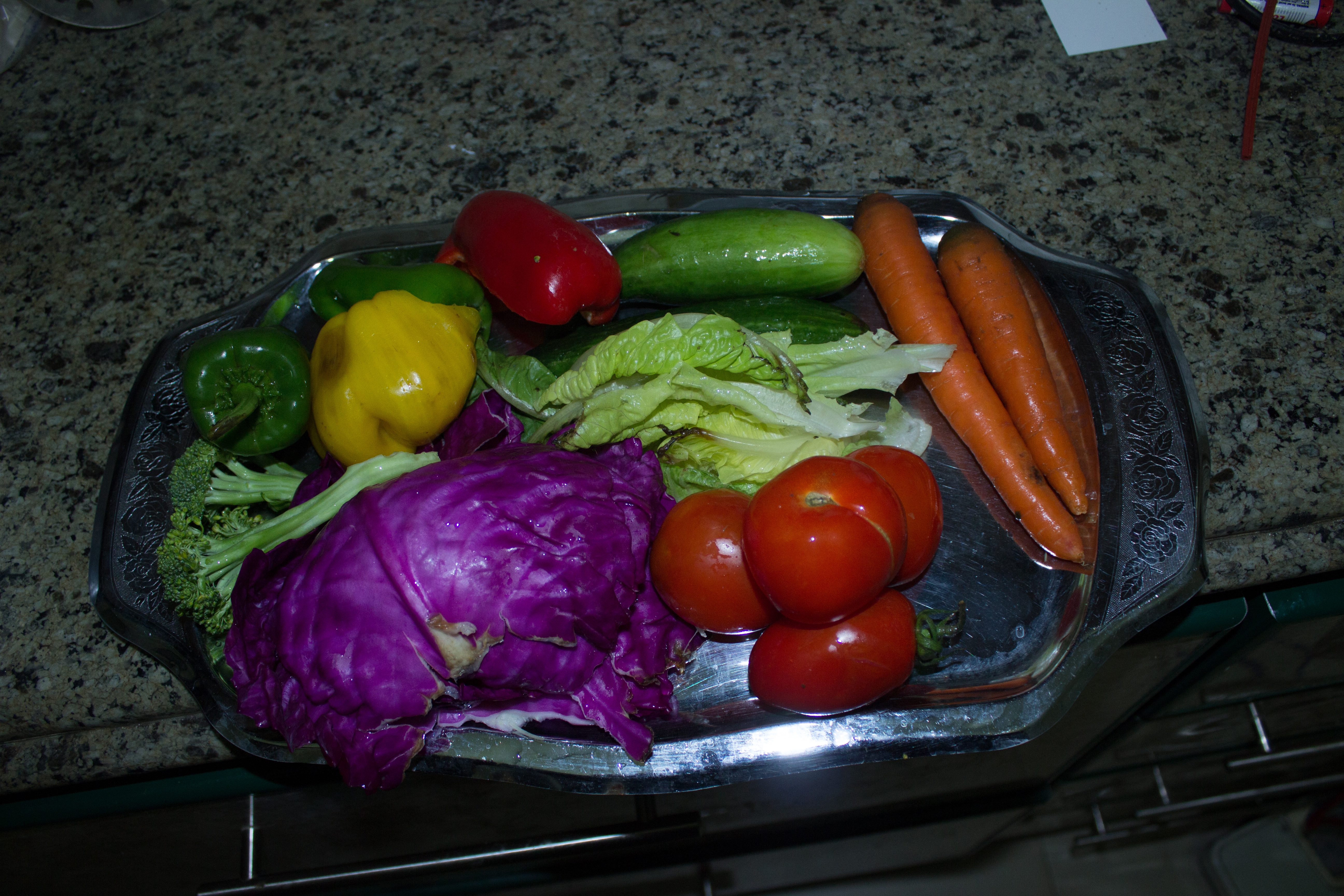 سلطة خضراء